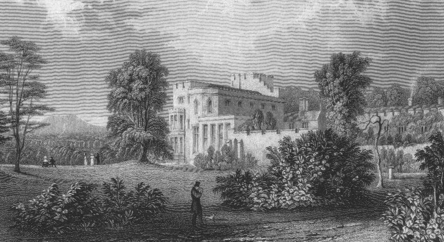 Brougham Hall in 1832. This building is situated in Brougham village, outside Penrith in England.